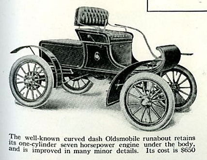 An illustration for a Country Life article about cars new in 1905. The 1905 Curved-dash Oldsmobile.